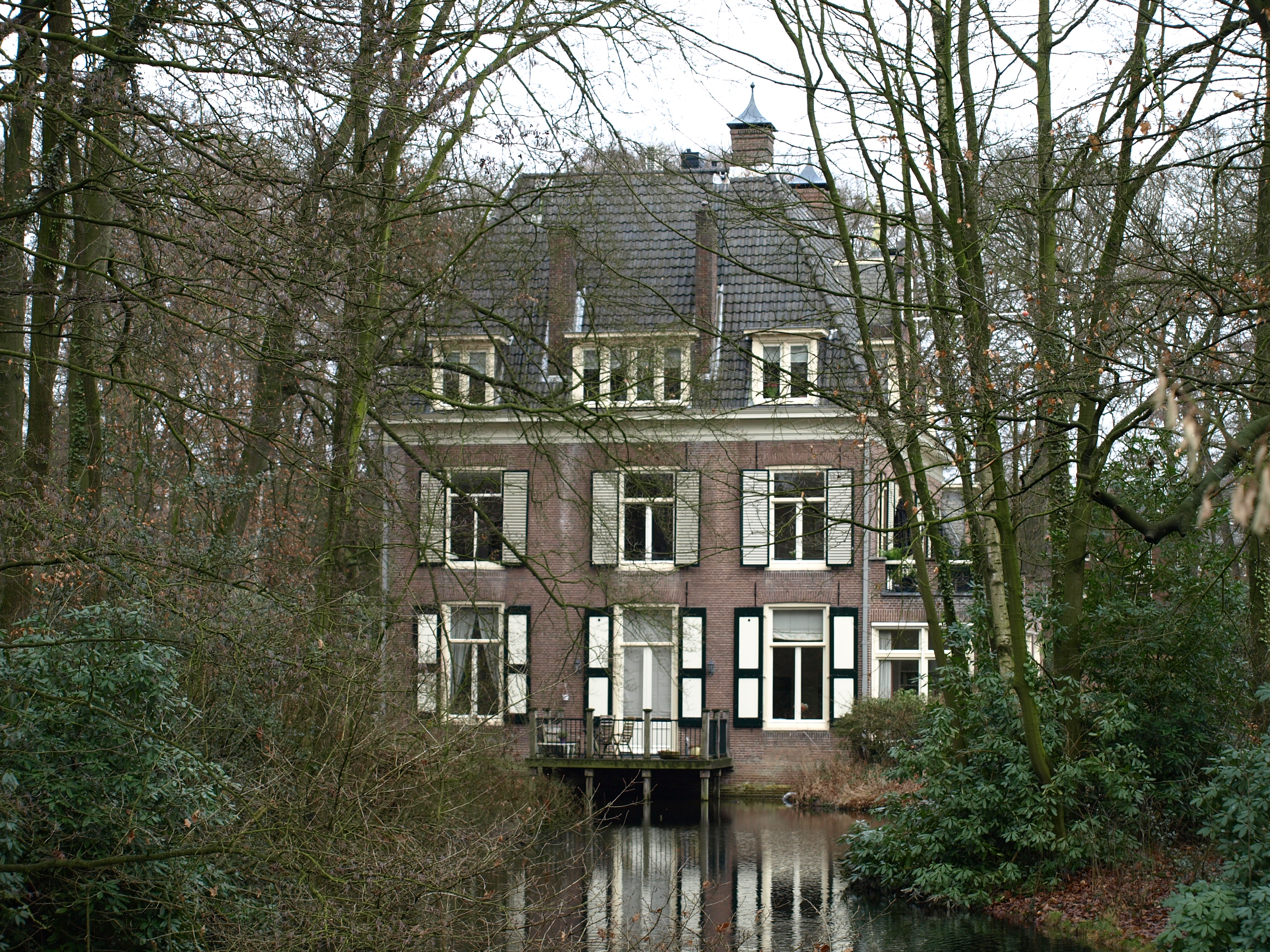 Angerenstein house in Arnhem